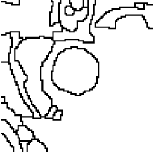 Jean Cousty : "Discrete watersheds: theory and applications to cardiac image segmentation", PhD thesis, 2007